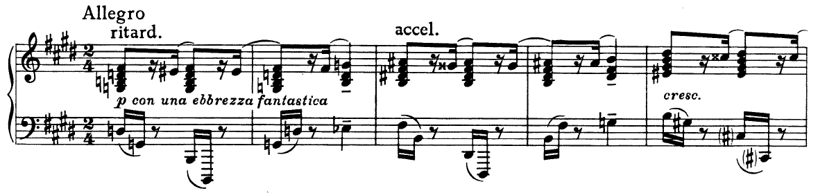 mm.289-293